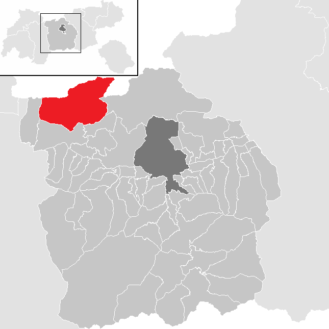 District Innsbruck Land